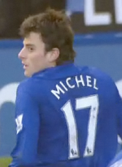 Miguel Marcos Madera pictured against Tottenham Hotspur during January 2009.